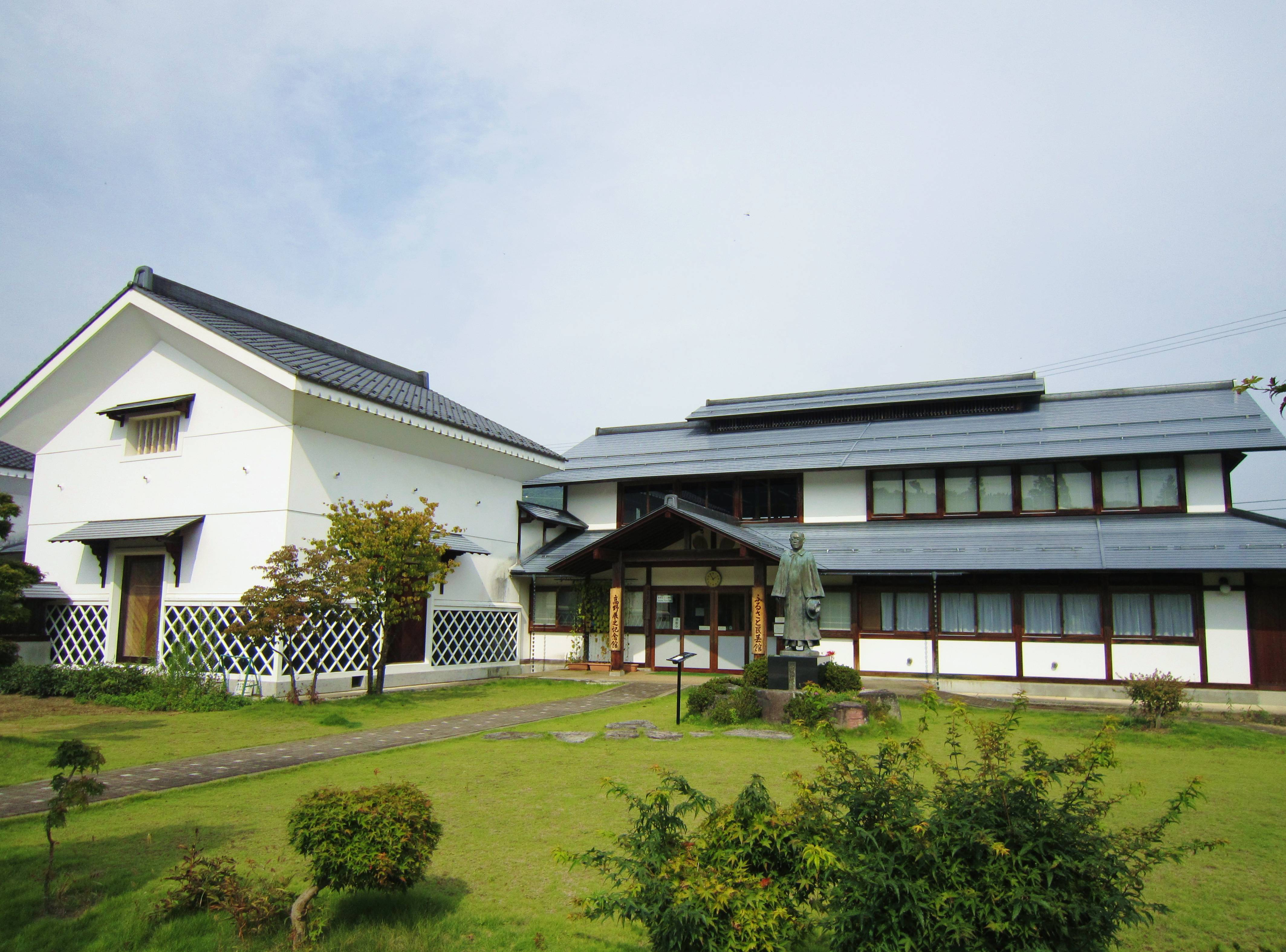 Takano Tatsuyuki Memorial Hall.